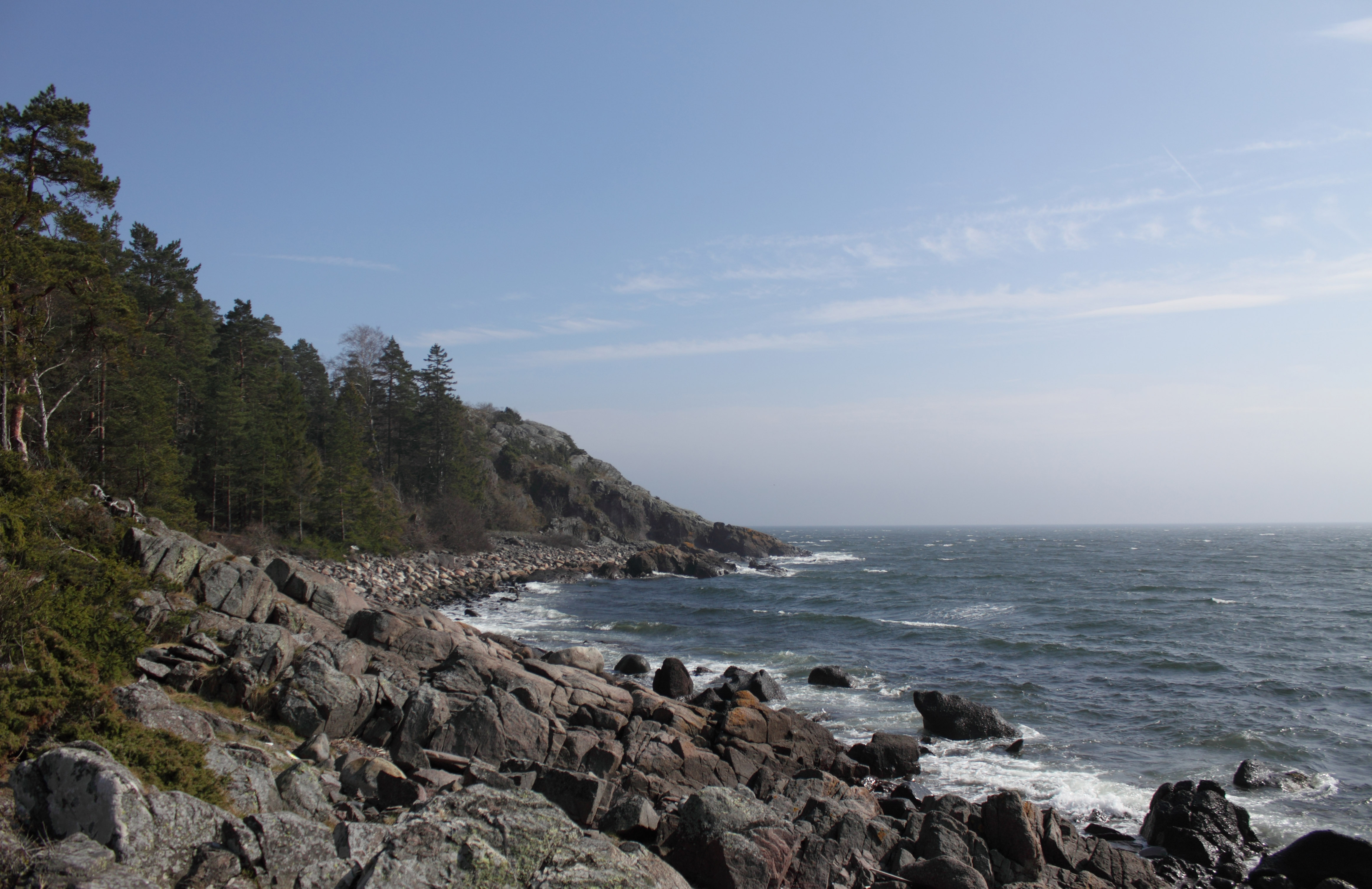 South east coast of Jeløya natural reserve.